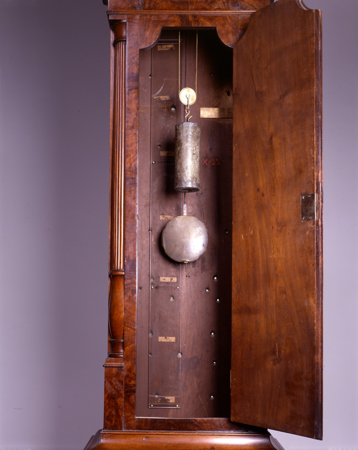 Interior of Thomas Voigt’s Astronomical Case Clock (Photo furnished by the Thomas Jefferson Foundation with permission to upload for free access) Text on Brass Plate “Clock of President Jefferson Gift of daughter Mrs. Randolph To Dr. Rolley Dunglison 1826”